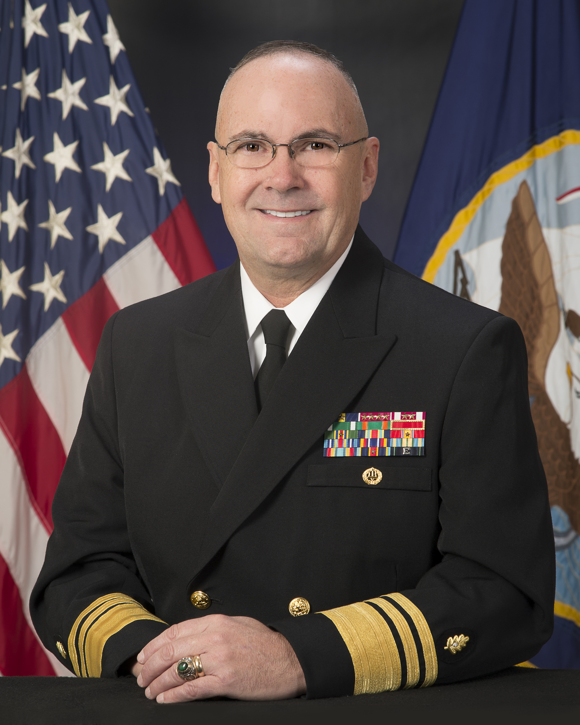 VICE ADMIRAL C. FORREST FAISON, III SURGEON GENERAL CHIEF, BUREAU OF MEDICINE AND SURGERY